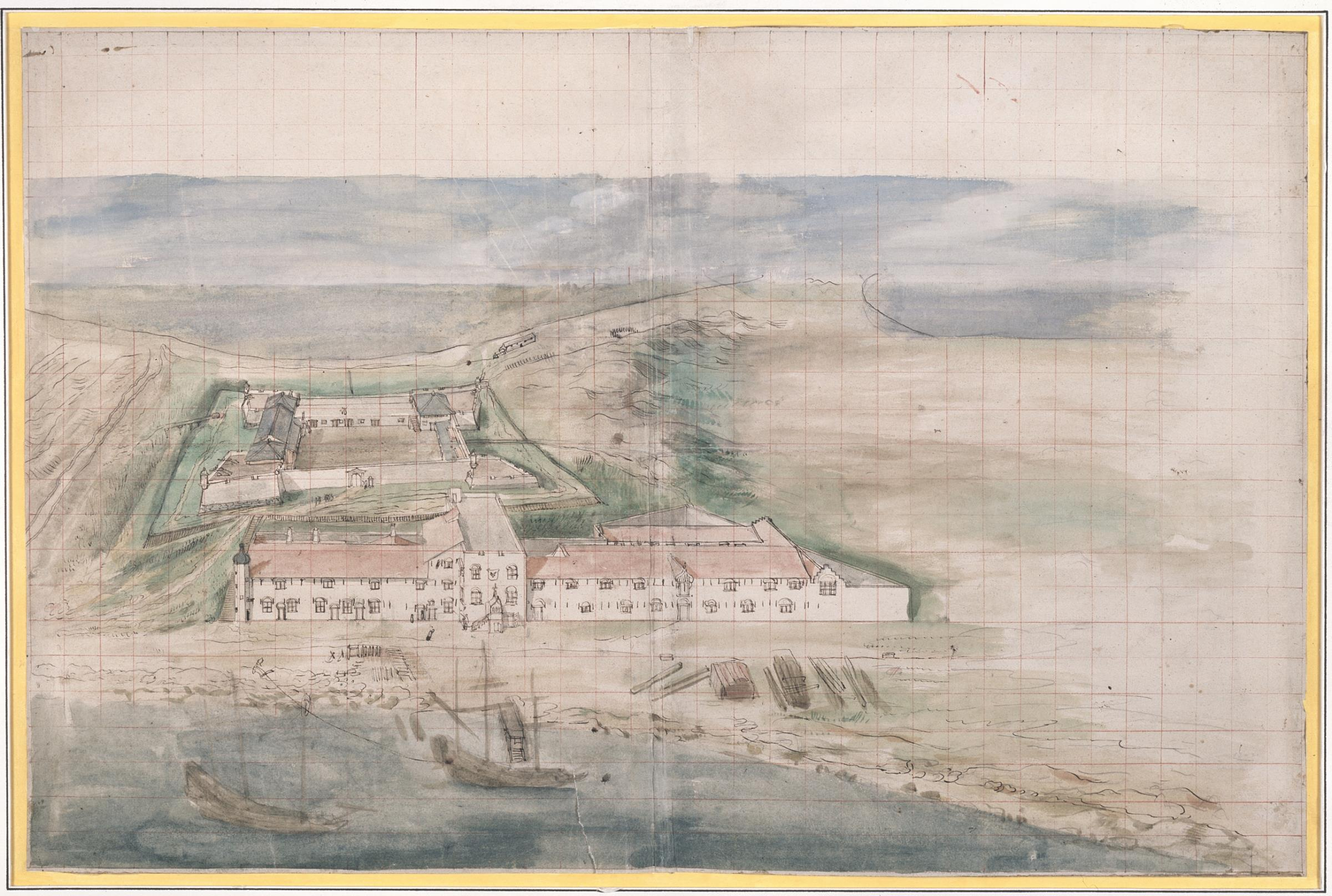 Title in the Leupe catalogue (NA): Schetsteekening van de loge der Oost-Indische Compagnie te ?. J. van Bracht: 'Vingboons-Atlas. Ten geleide en beschrijving van de opgenomen kaarten' (Bussum 1981) describes the print as a sketch on squared copy paper by a VOC agent of a fort with four bastions, Fort Zeelandia on Formosa.